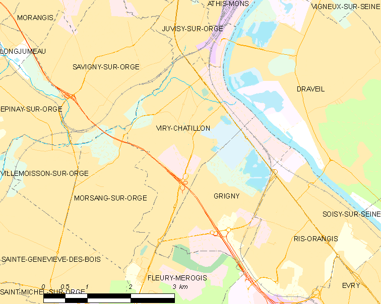 Map of French municipality Viry-Châtillon